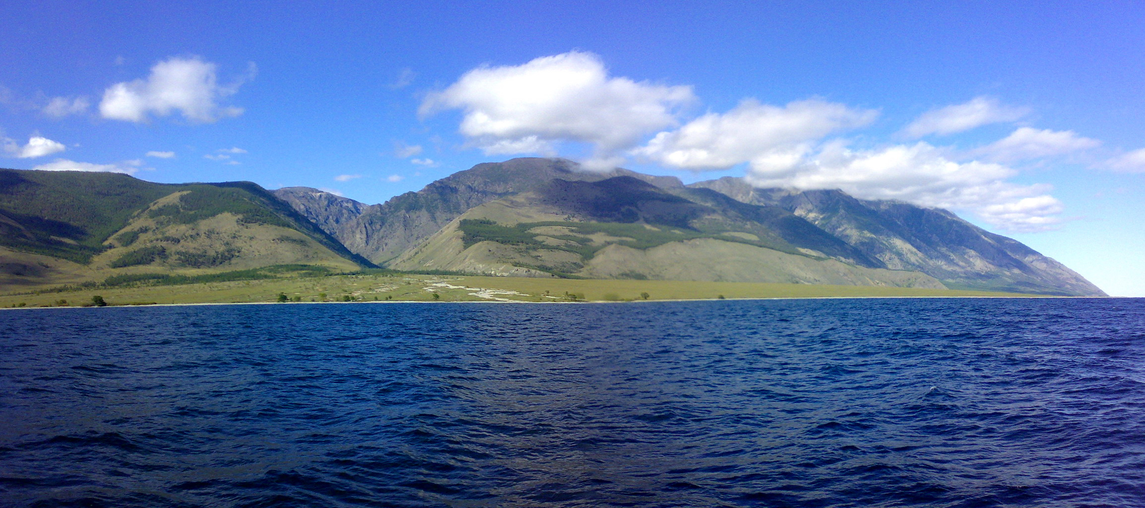 lake Baikal, west coast, cape Ritiy